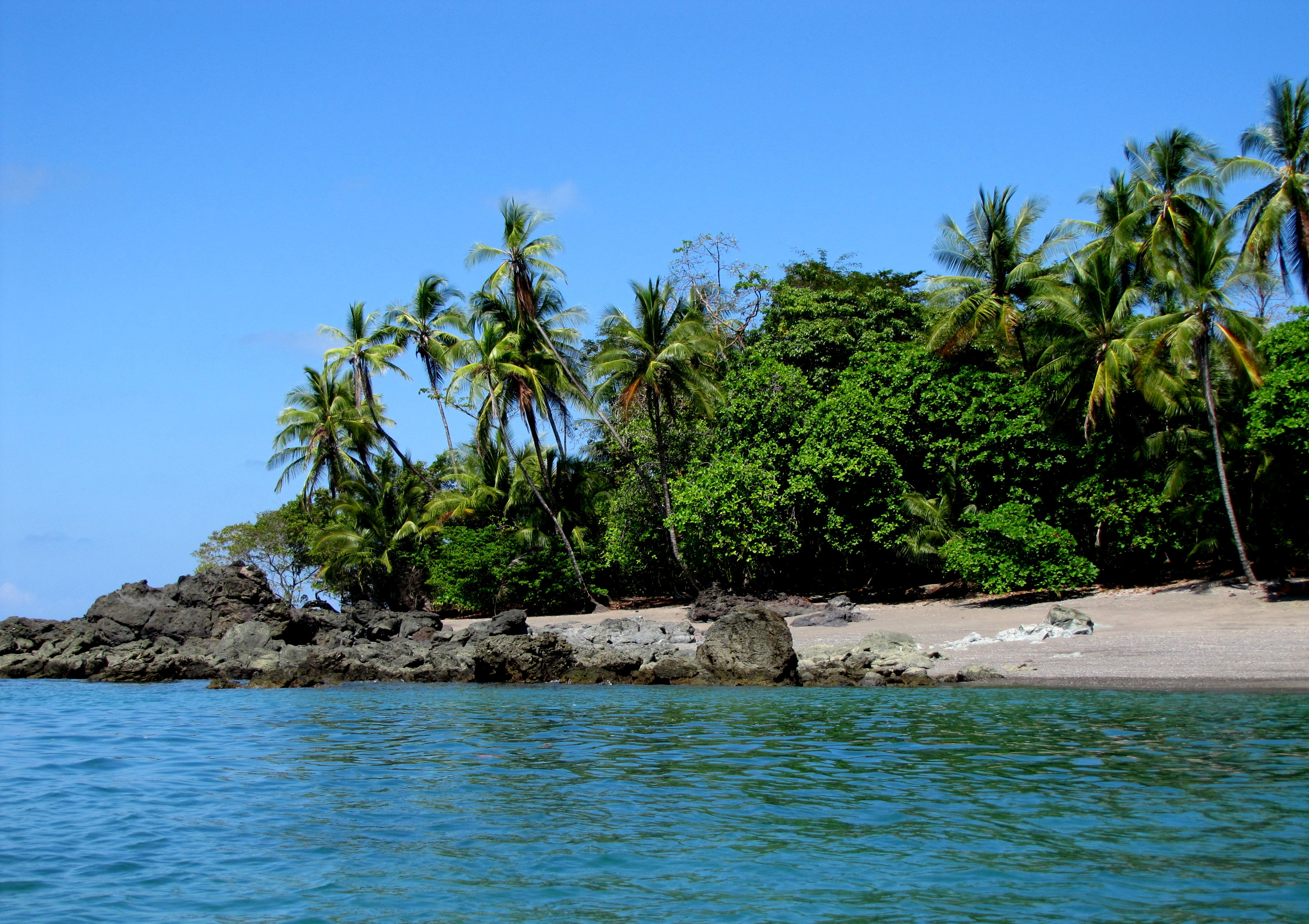 This picture was taken in the Corcovado National Park in the Península de Osa, Costa Rica